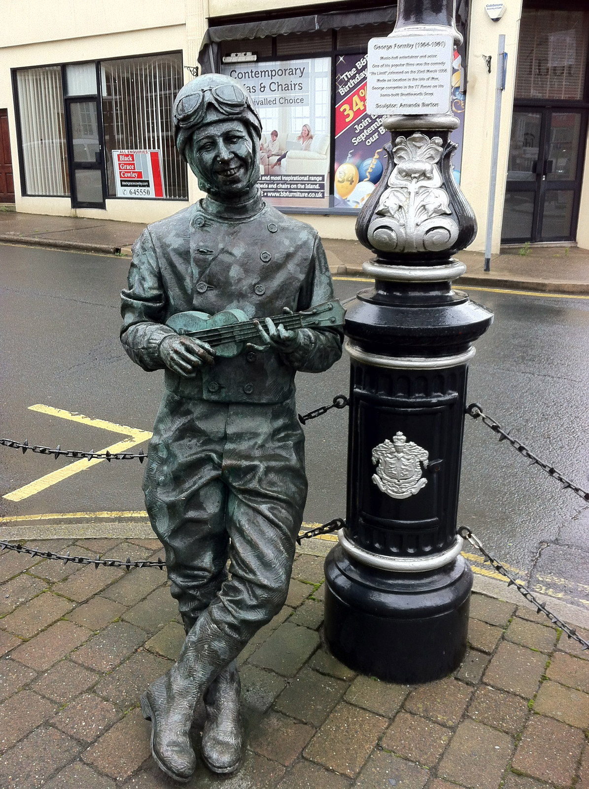 Statue of the English entertainer George Formby